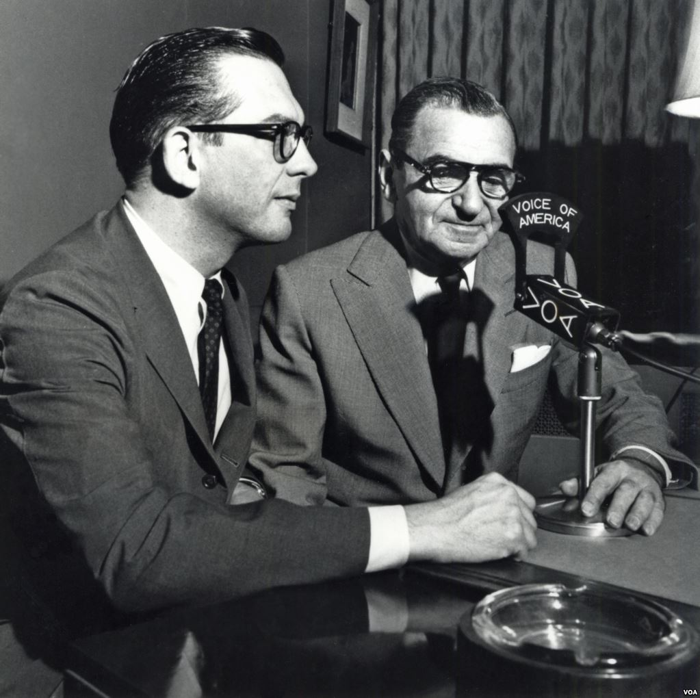 Willis Conover in the studio with Irving Berlin